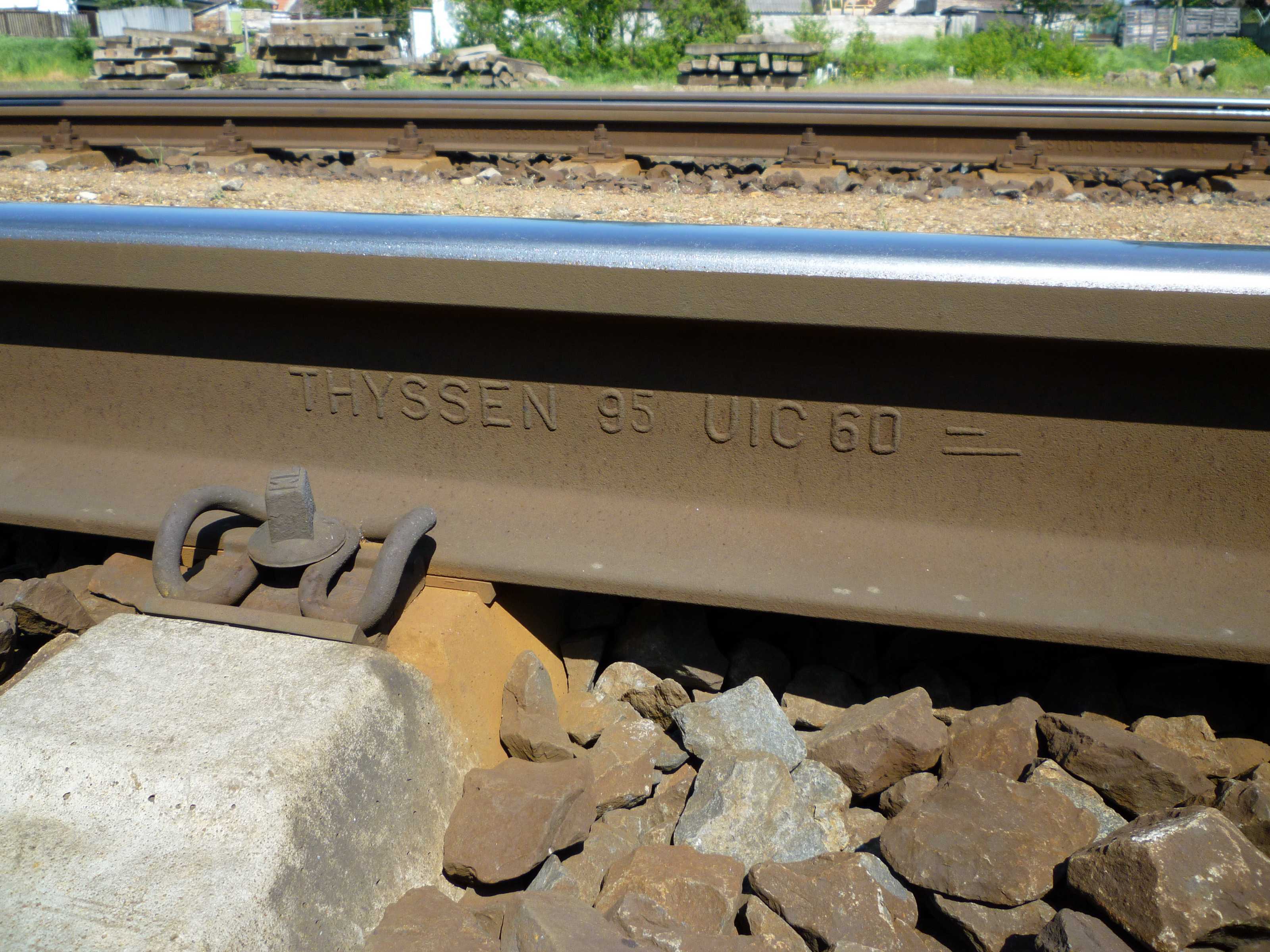 UIC 60 type rail at Budapest–Kelebia railway line, made by Thyssen in 1995.